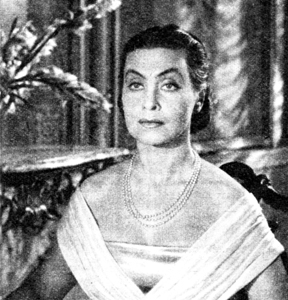 Nina Andrycz, Polish film and theatre actress